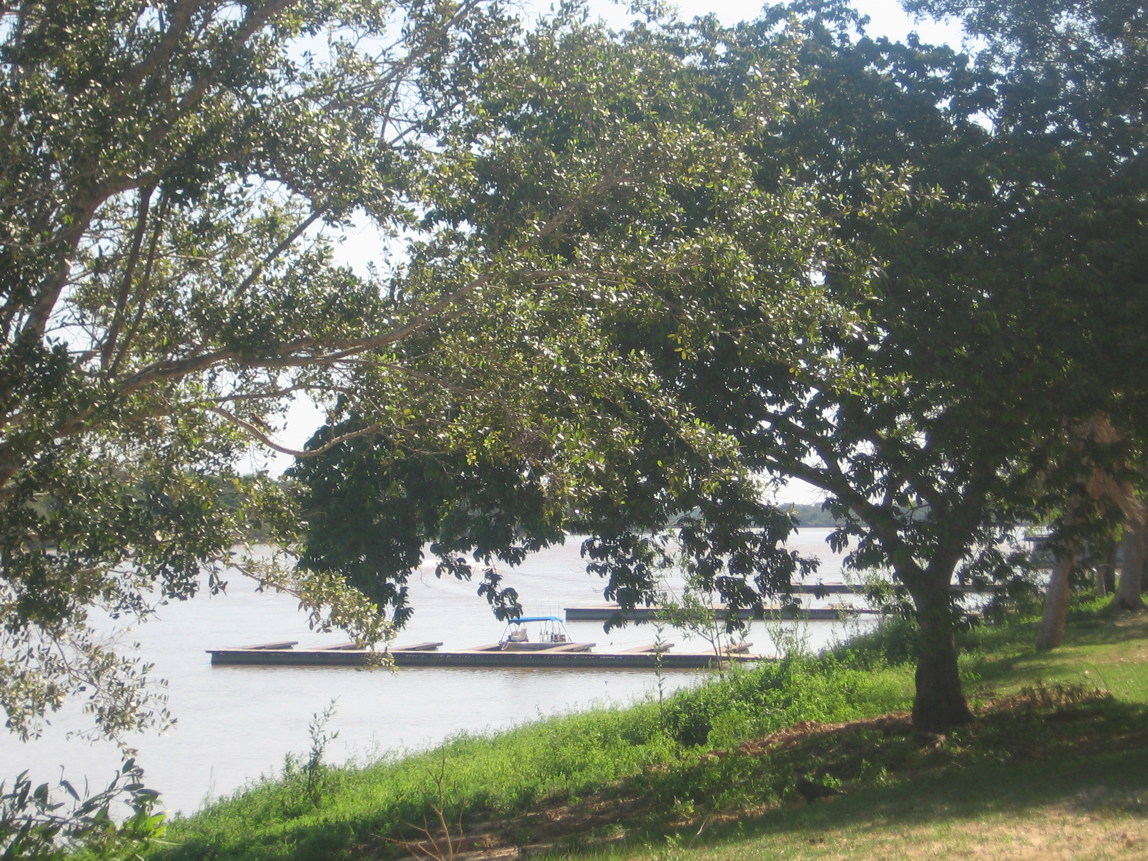 View of Cuiabá River, from Porto Jofre village in the Pantanal, Mato Grosso state, southern Brazil.